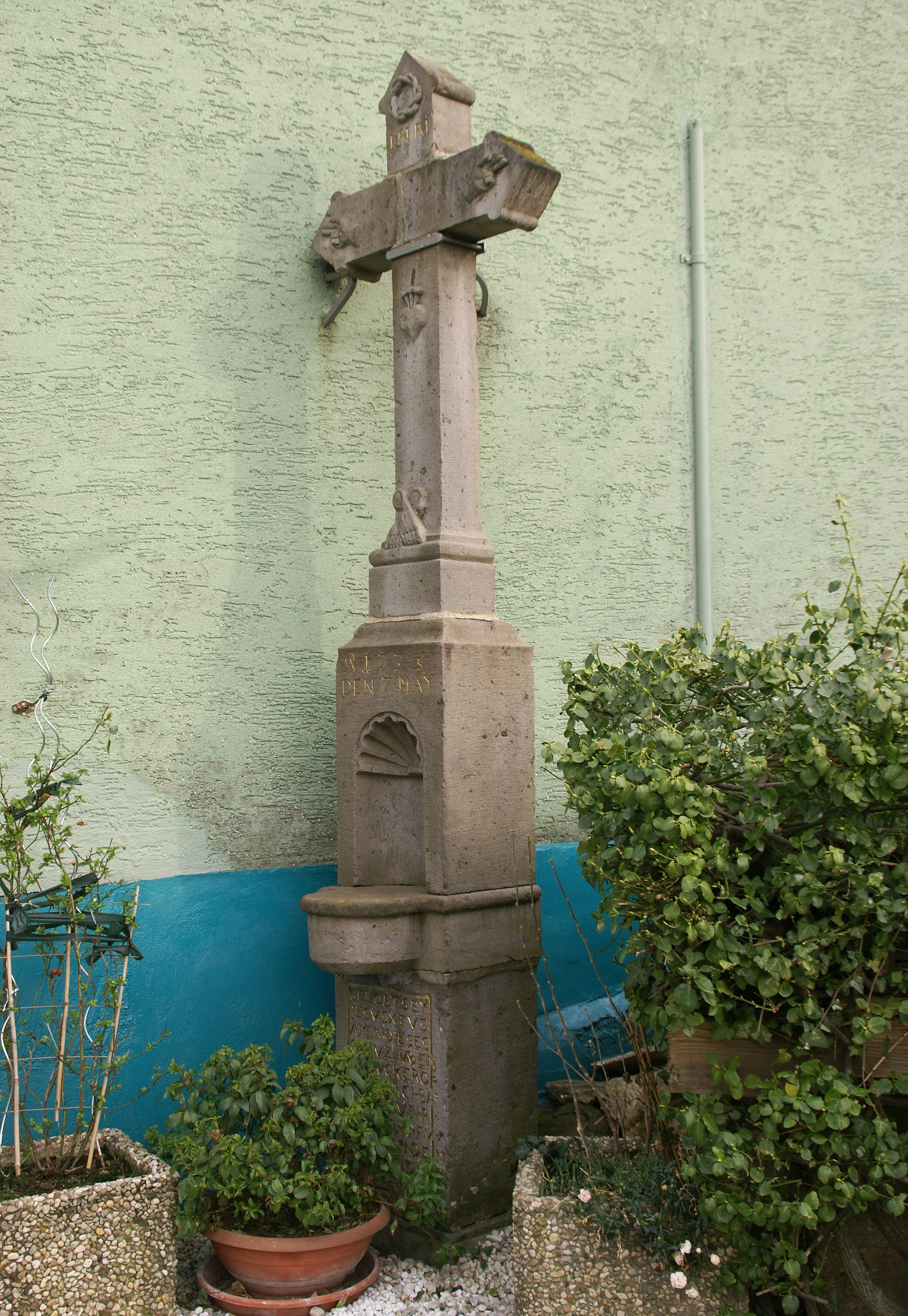 Wayside cross in Bockeroth at the corner of Leithecker Straße and Bockerother Straße